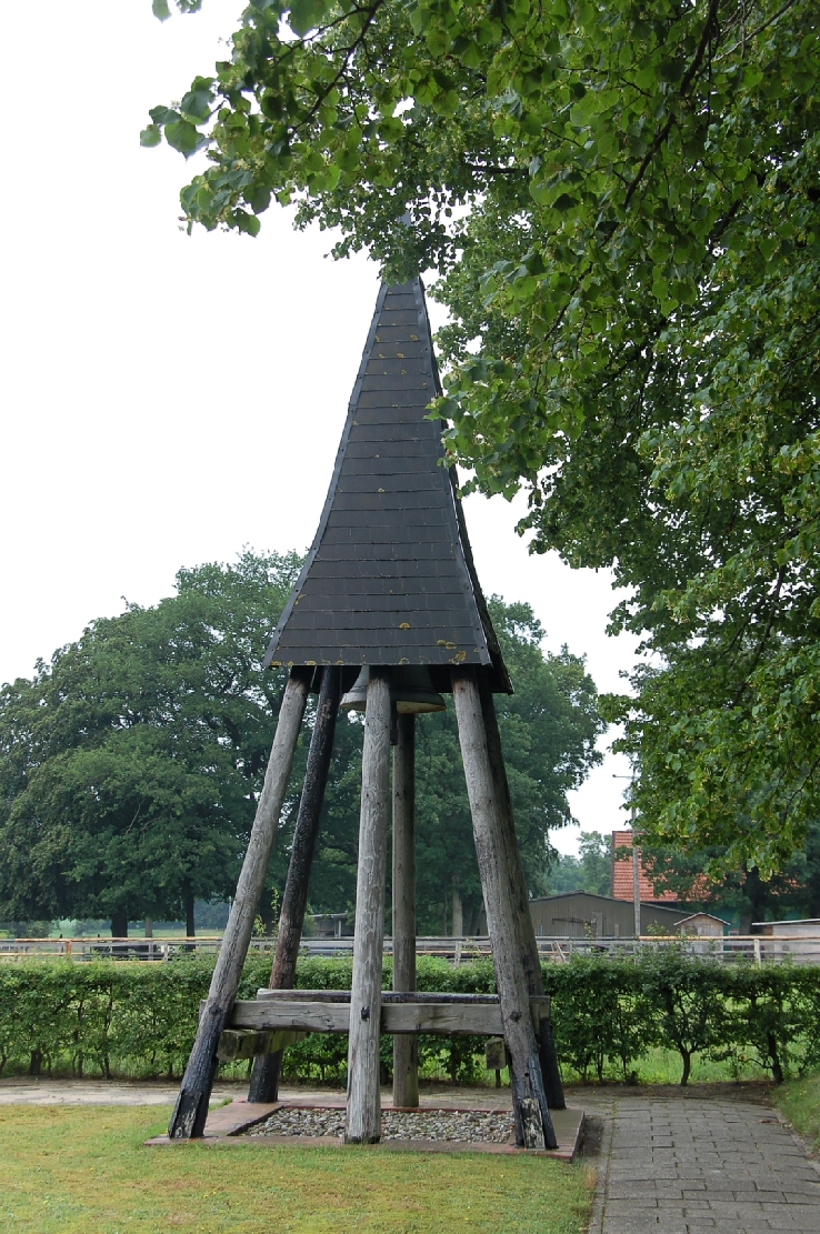 Pictures